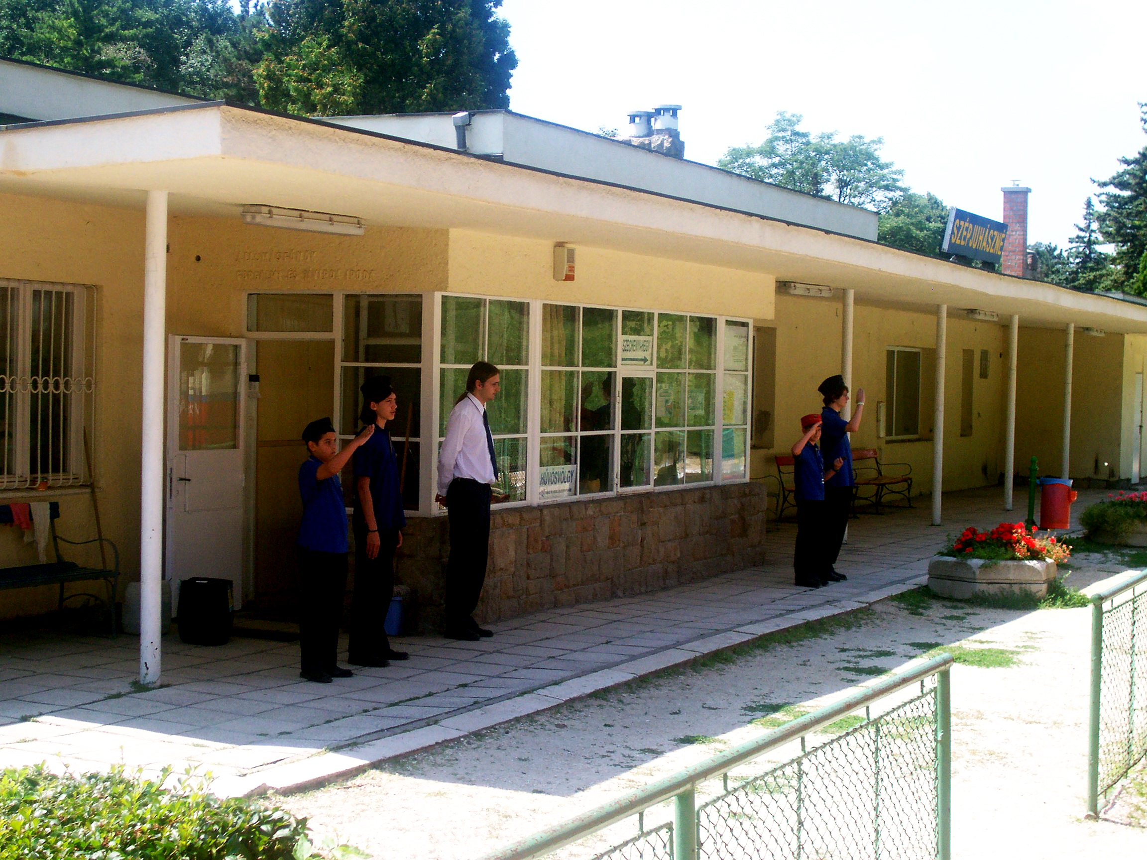 Szépjuhászné Station of the Budapest Children's Railway